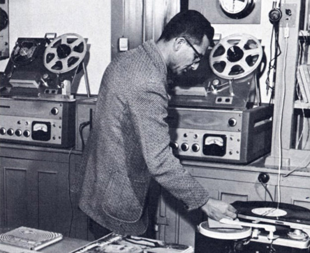 Afghan radio station. Original caption: "Recording room pre-records many interviews, special service programs for delayed broadcast."